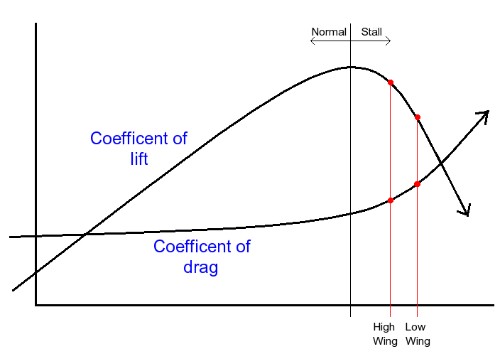 Graph of how an airfoil enters an aerodynamic spin. Self-made. Improvements welcomed.